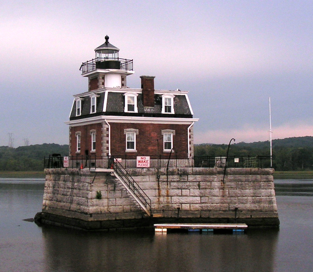 Photo of the Hudson-Athens Lighthouse, on the Hudson River